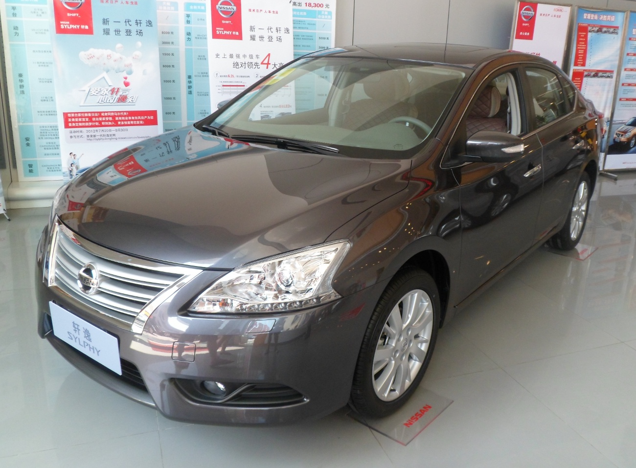 Nissan Sylphy B17 photographed in Shanghai, China.